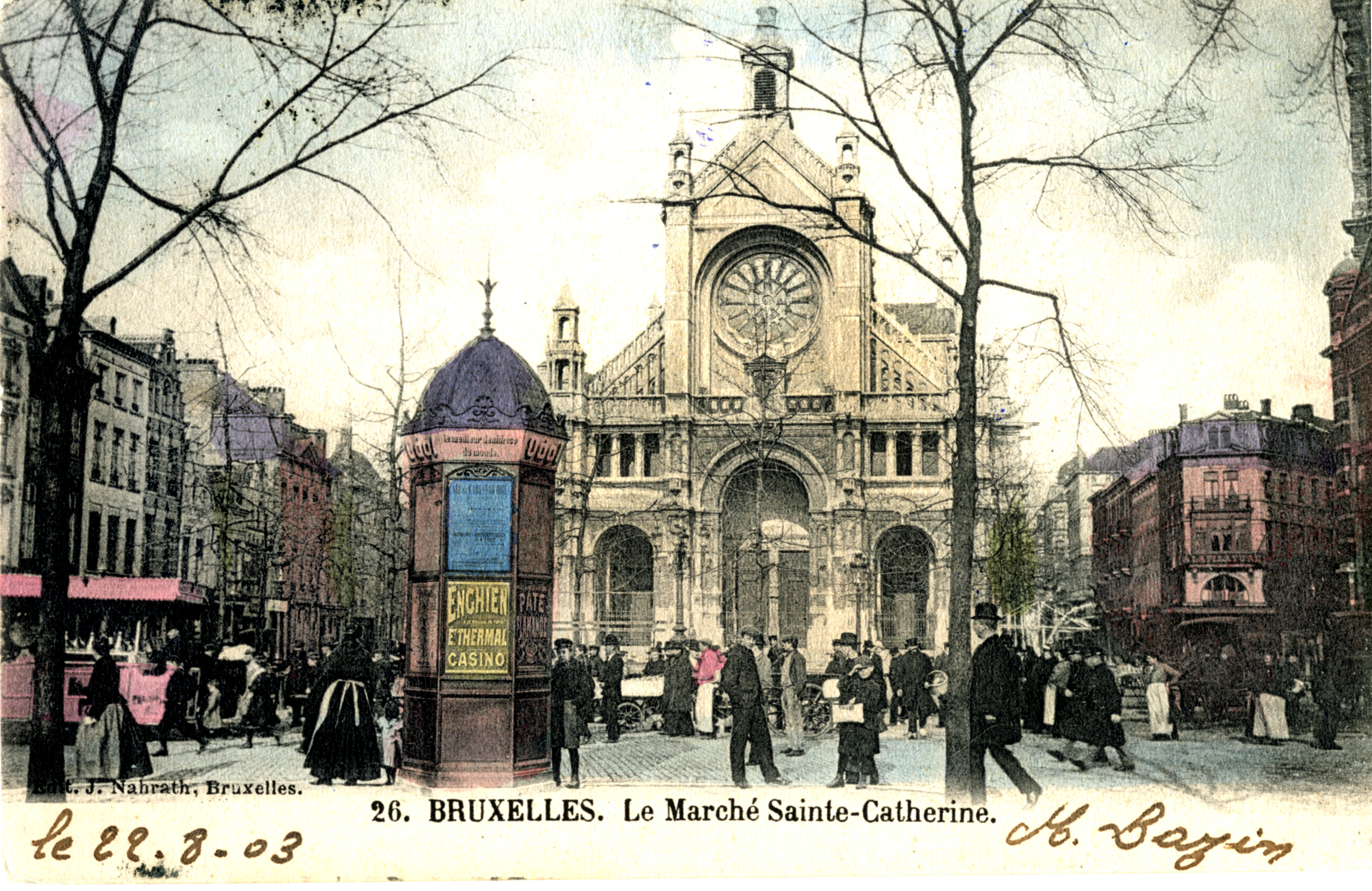 Daily market at Sainte Catherine church, view from the market